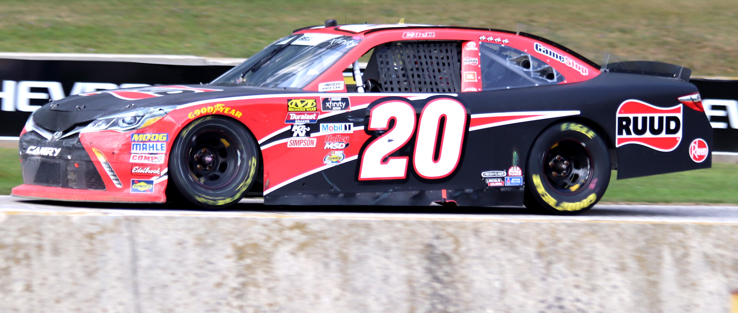 The NASCAR Xfinity Series Toyota Camry of Christopher Bell racing uphill toward turn 6 during the 2018 Johnsonville 180 at Road America.